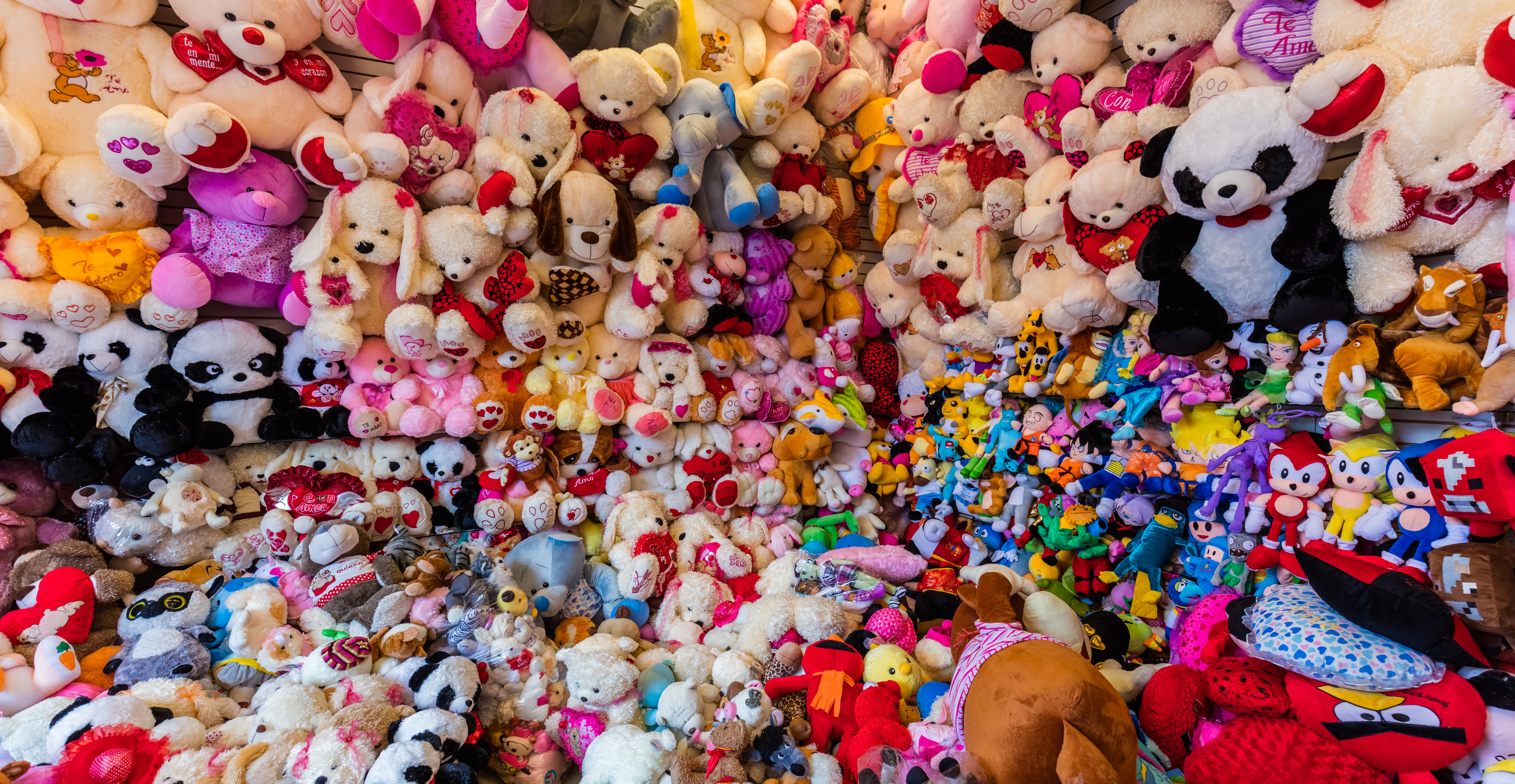 Teddy bears shop in Lima, Peru